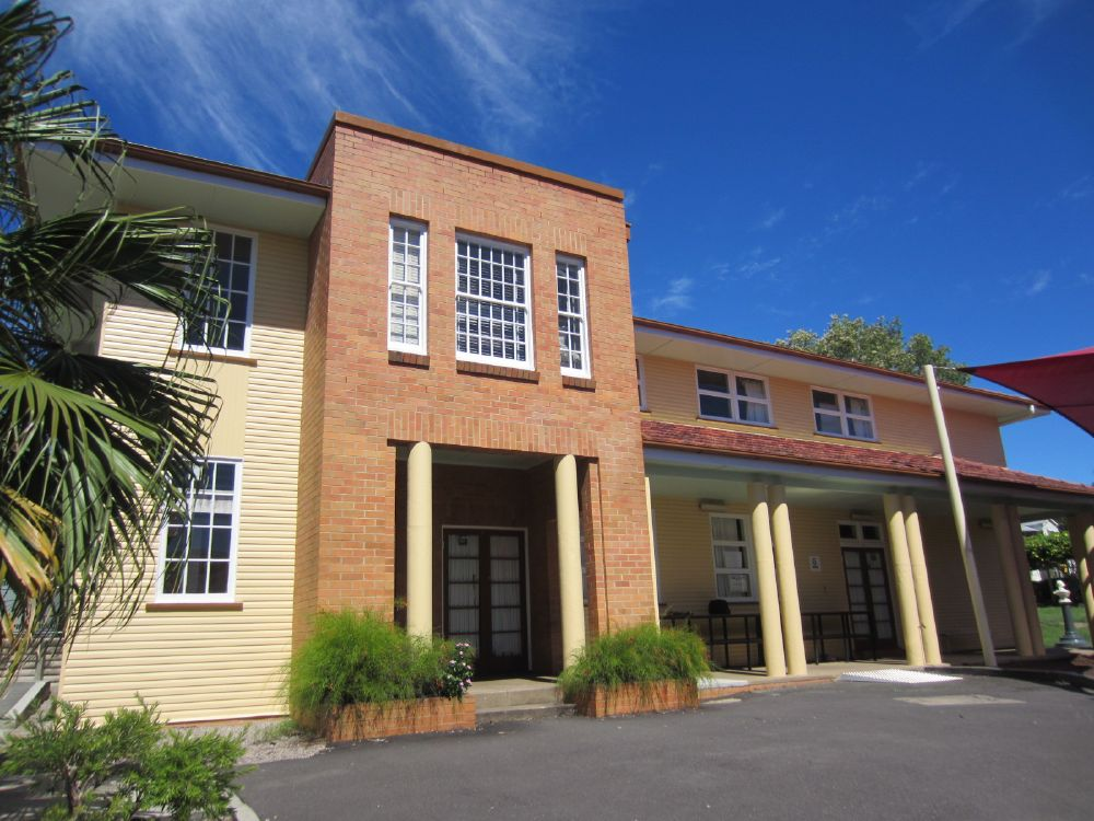 Former Library and Hall (2015)